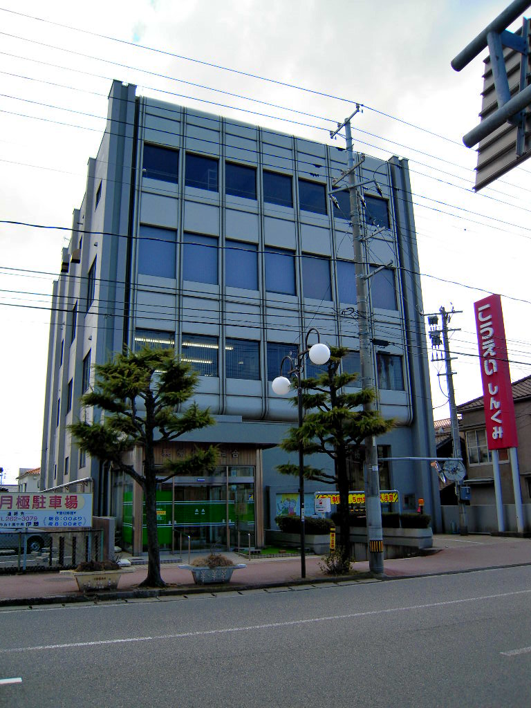 Kōei Credit Cooperative head store.